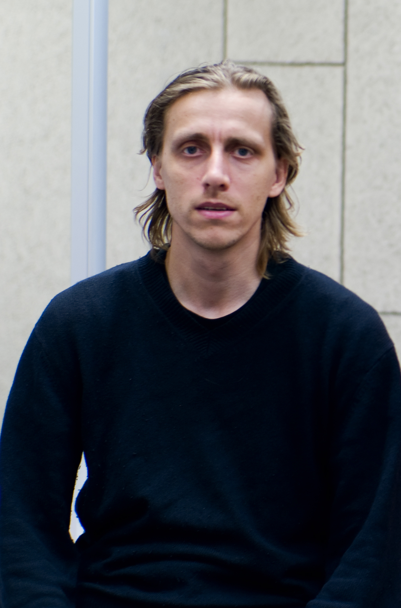 Ambient Sound Investments - Ahti Heinla